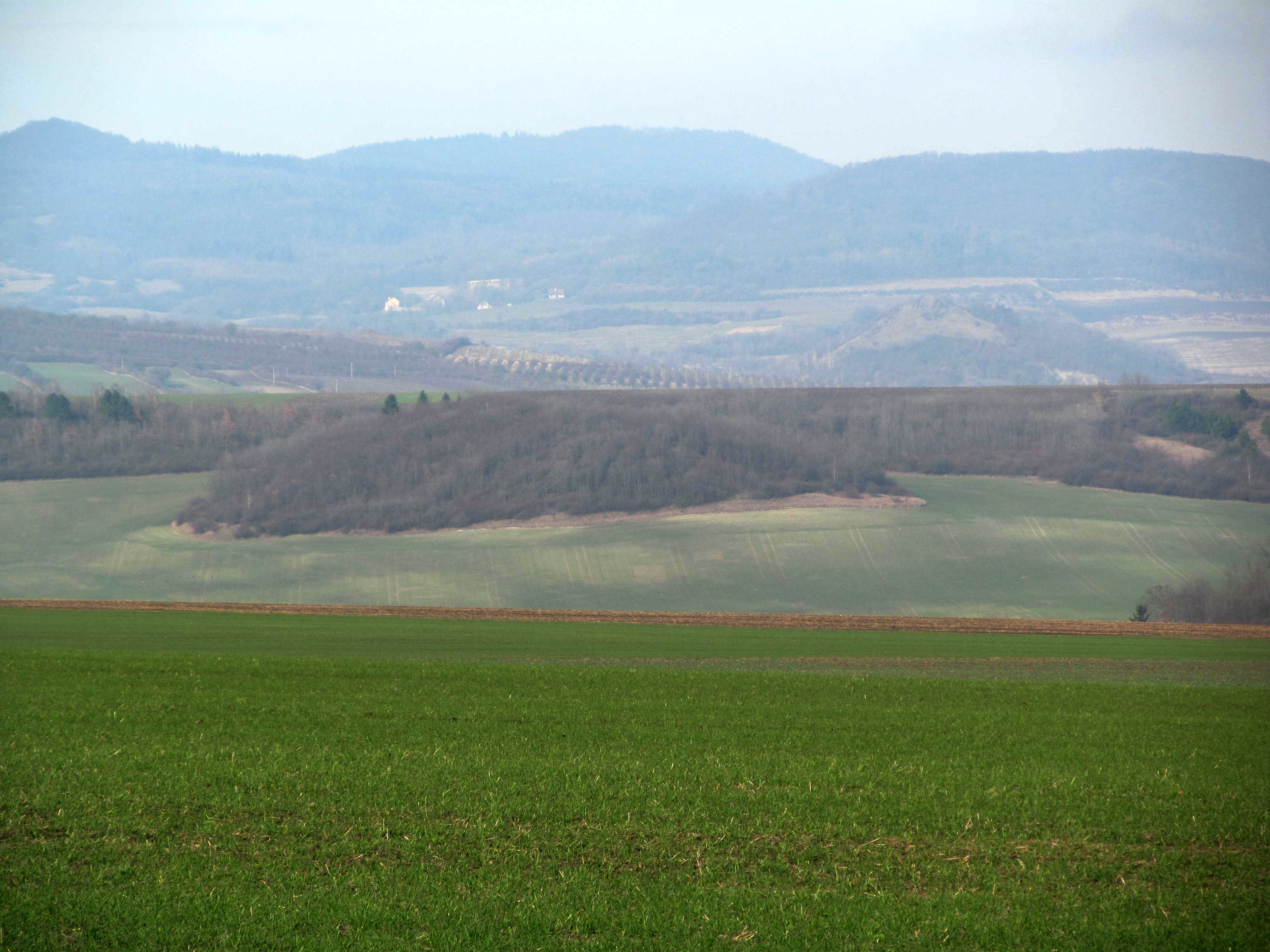 Přední vršek by Hnojnice